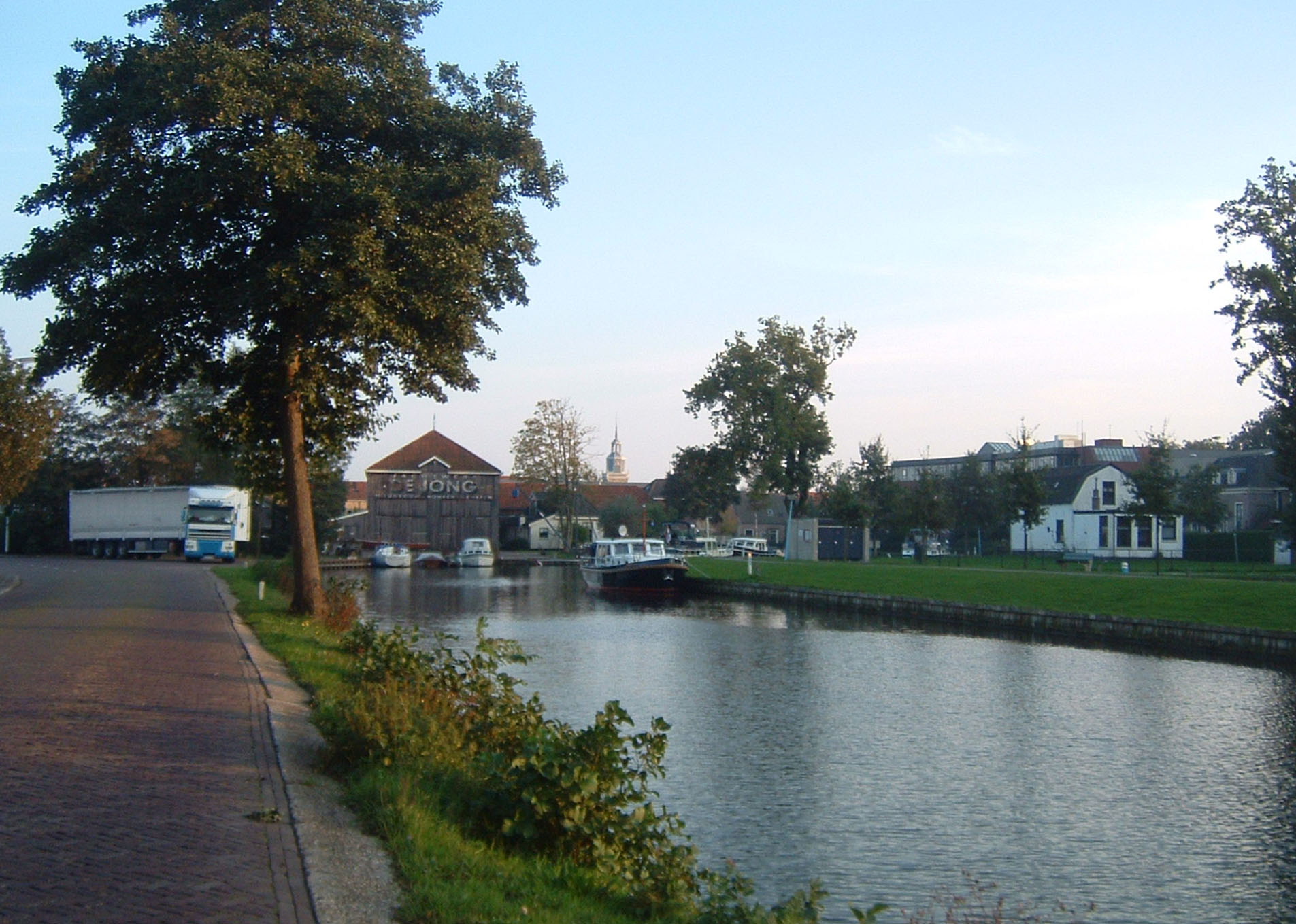 Own photograph of Joure's marina (The Netherlands), as seen in October 2006.